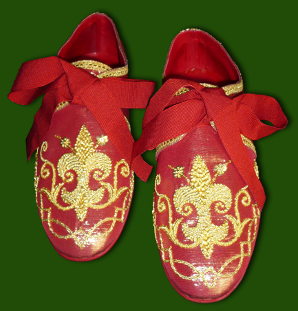 Pontifical sandals